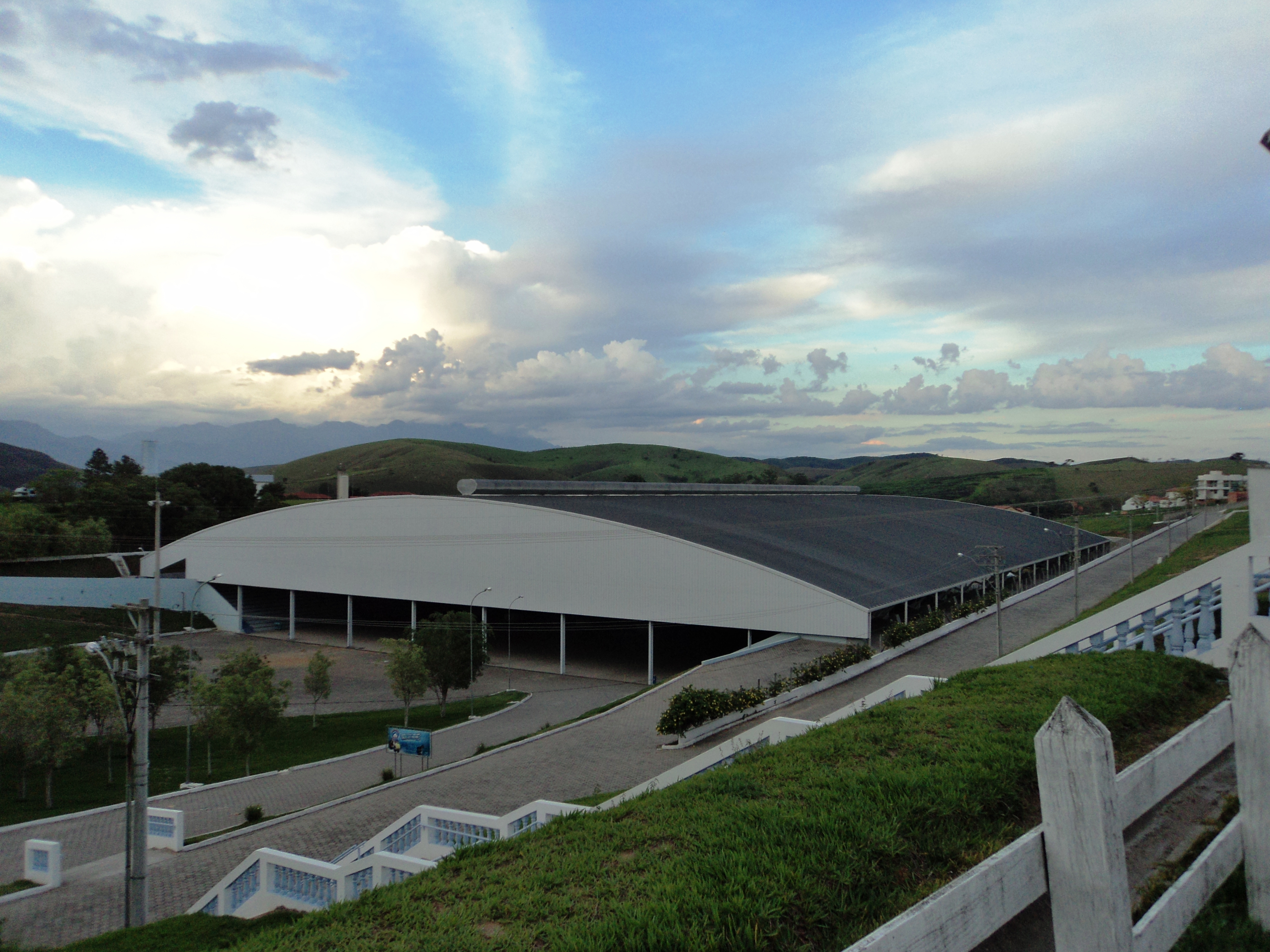 View of the Centro de Evangelização da Canção Nova, in Cachoeira Paulista, São Paulo, Brazil.